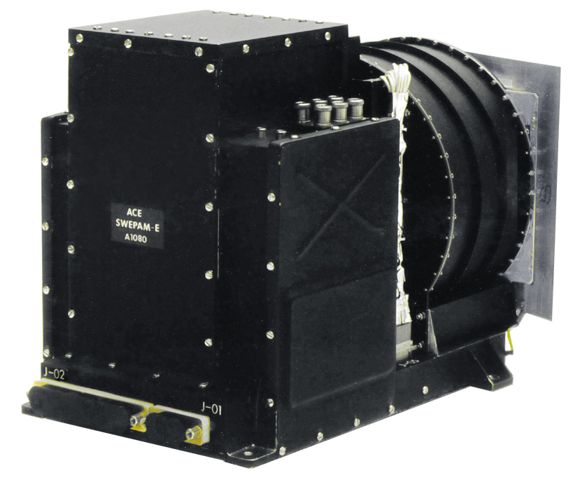 Instrument of the scientific satellite Advanced Composition Explorer. The Solar Wind Electron, Proton, and Alpha Monitor (SWEPAM) measures the solar wind plasma electron and ion fluxes as functions of direction and energy. These data provide detailed knowledge of the solar wind conditions every minute. SWEPAM also provides real-time solar wind observations that are continuously sent to the ground for space weather purposes.